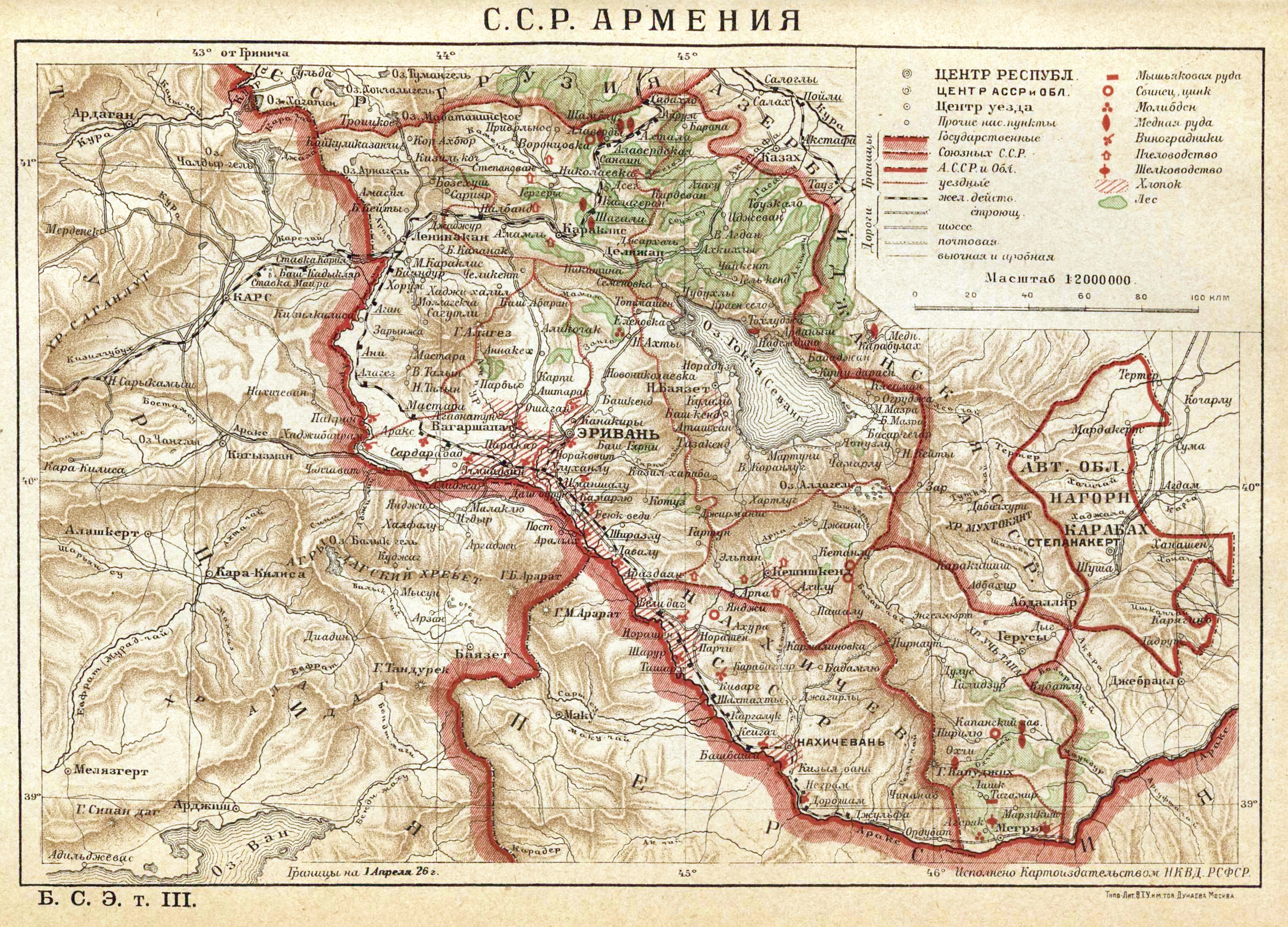 Map of Armenian SSR from Great Soviet Encyclopedia of 1926